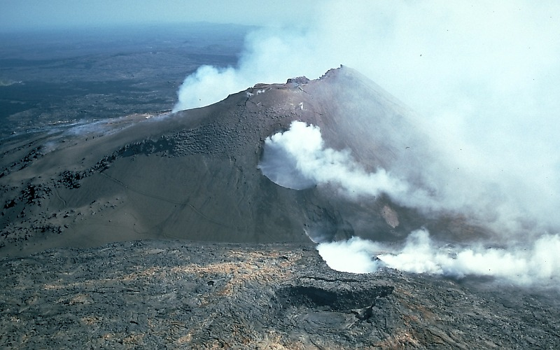 Fume billows from two prominent collapse pits on the west flank of Pu`u `O`o. The upper pit, the "Great Pit," eventually engulfed the entire slope of the cone; the lower pit overlies the episode 51 vents. The pit at the bottom of the photograph is the inactive lava pond into which lava poured from the episode 51 and 52 vents.